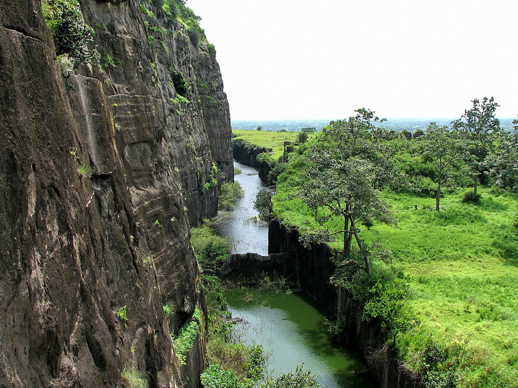 Daulatabad ;Built by the Government" or “City of Prosperity”, depending on the source), is now a village, based around the former city of the same name. It is in Maharashtra, India, about 20 miles northwest of Aurangabad.